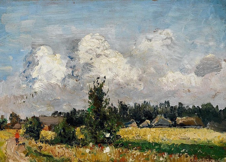 Zomers landschap